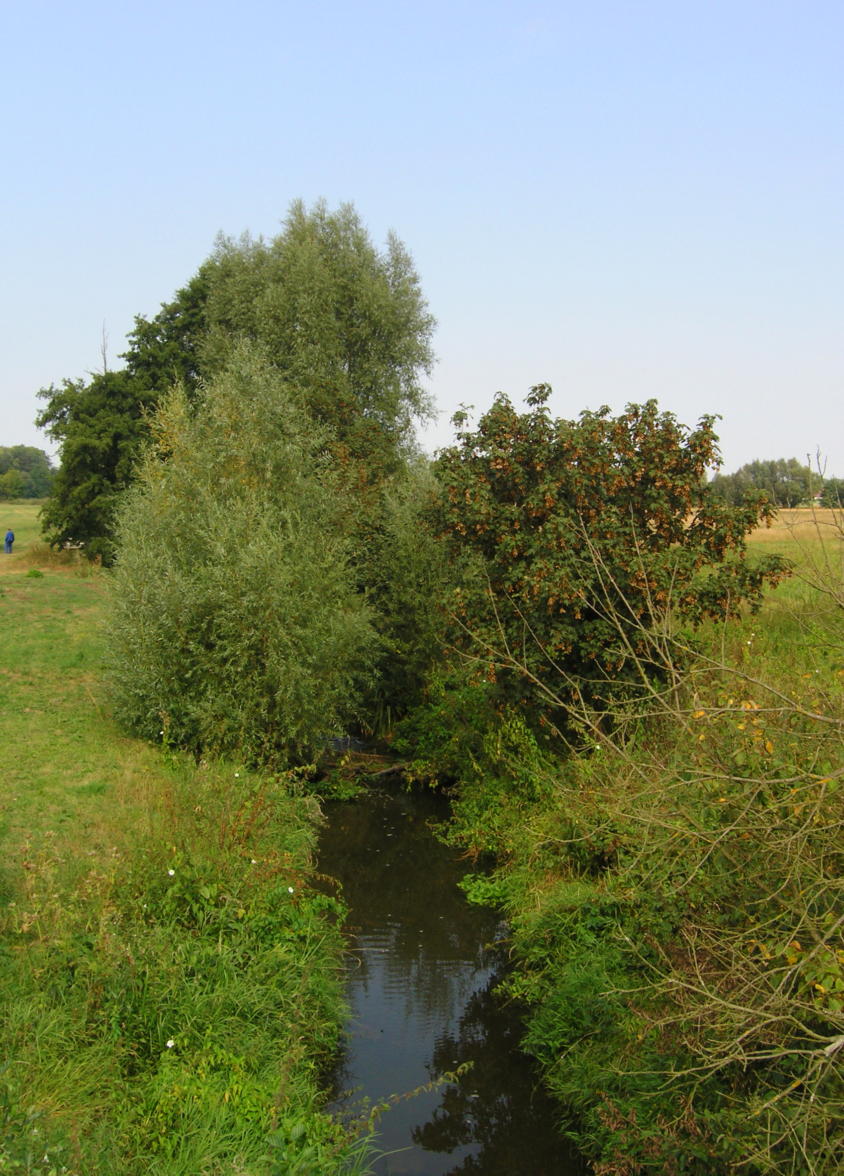 Bystřice River in Boharyně, Czech Republic